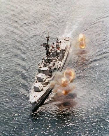 The U.S. Navy's Allen M. Sumner-class destroyer USS Lyman K. Swenson (DD-729) firing a 6-gun salvo at shore targets during the Vietnam War between November 1968 and July 1969.